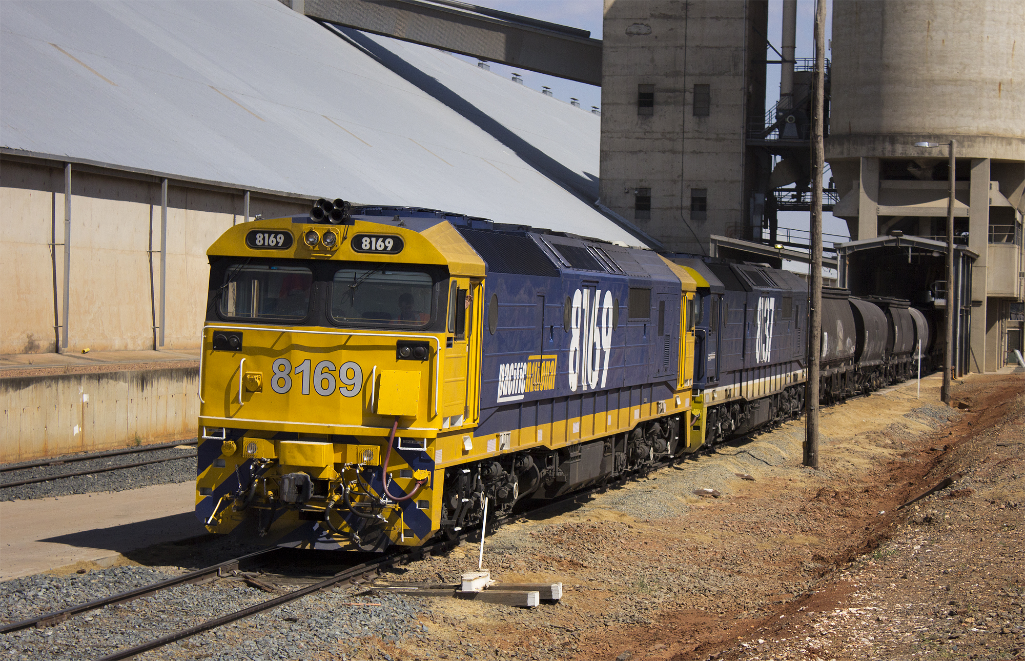 Pacific National 81 class locos (8169 and 8137) at the Temora Sub Terminal.